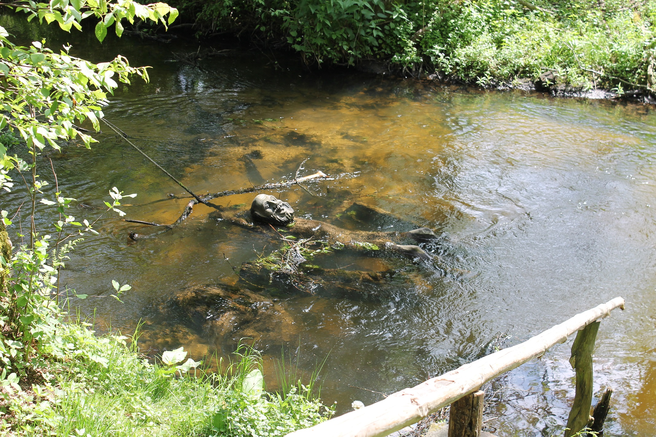 Naujasodė Village, Druskininkai Municipality, Lithuania